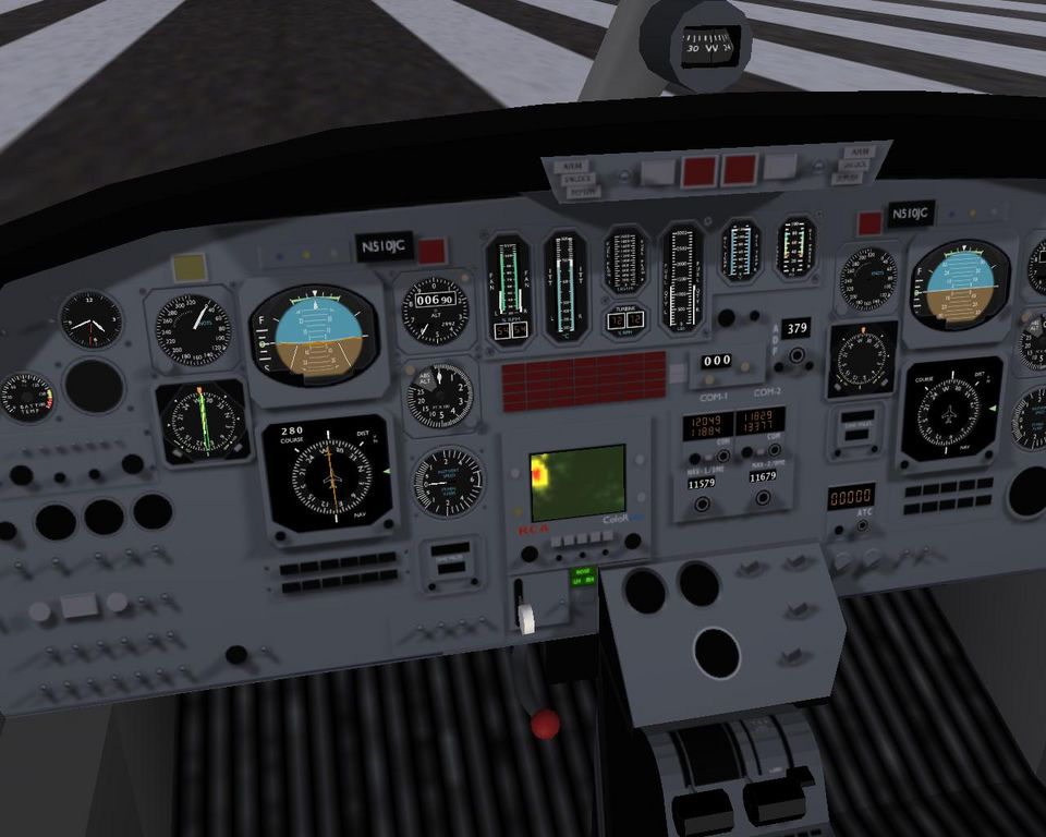 3D image of a Citation panel taken with FlightGear software.